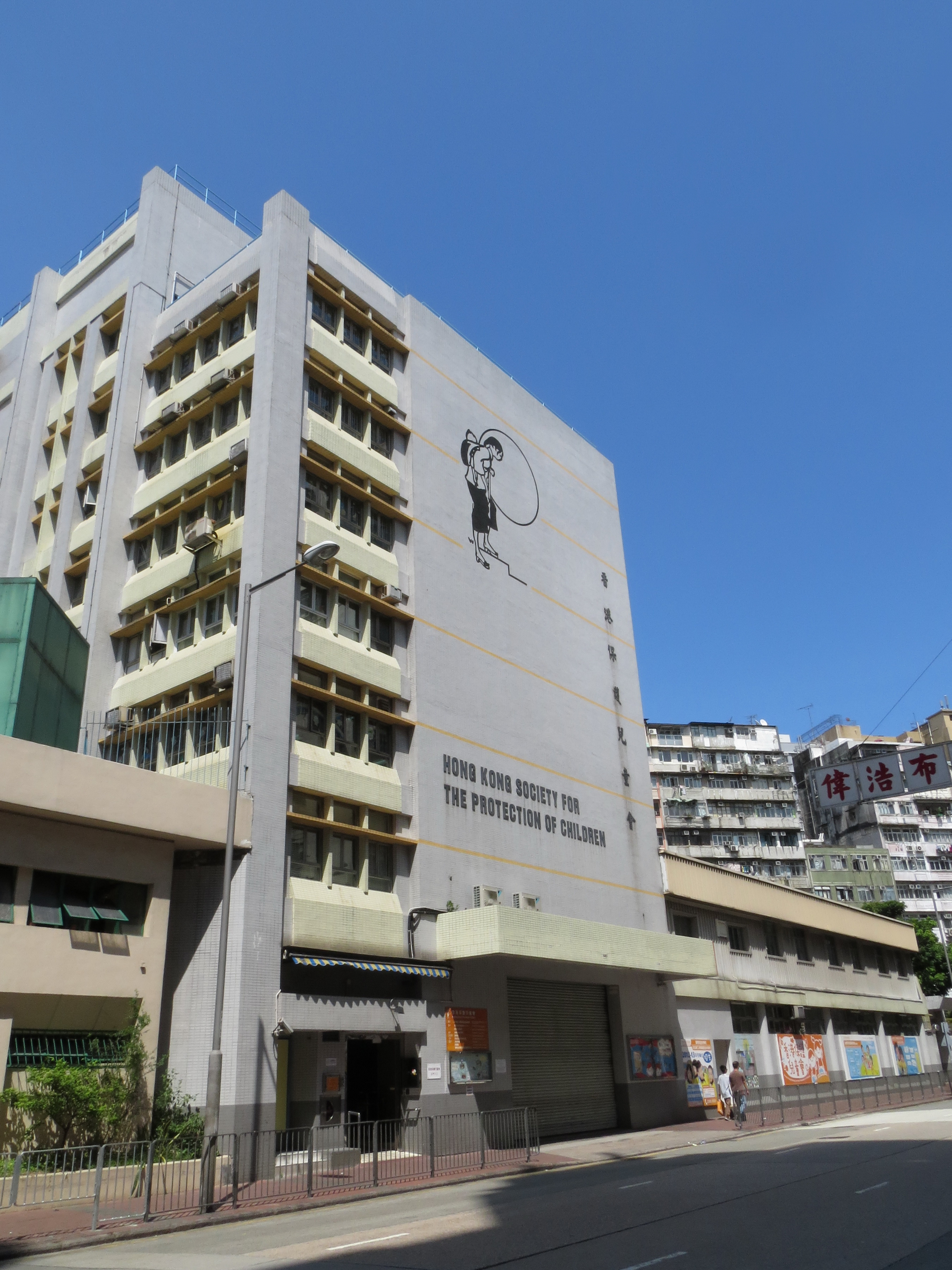 Head office of the Hong Kong Society for the Protection of Children, 387 Portland Street, Kowloon, Hong Kong. Yu Chau Street is in the front.